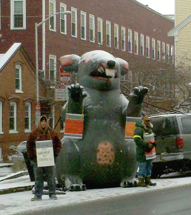 Joseph Barillari, own work, (c) 2010. Giant inflatable rat on Massachusetts Ave. in Cambridge, MA.